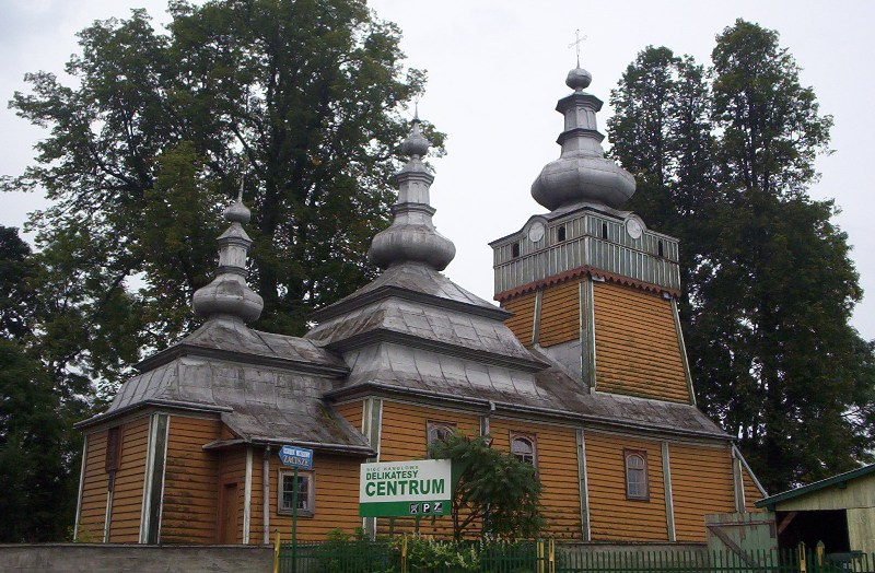 Wooden church of St. Michael in Wysowa (Beskid Niski, Poland). Built in Western Lemko style in 1779. Earlier it belonged to the Ukrainian Greek Catholic Church, now Orthodox.